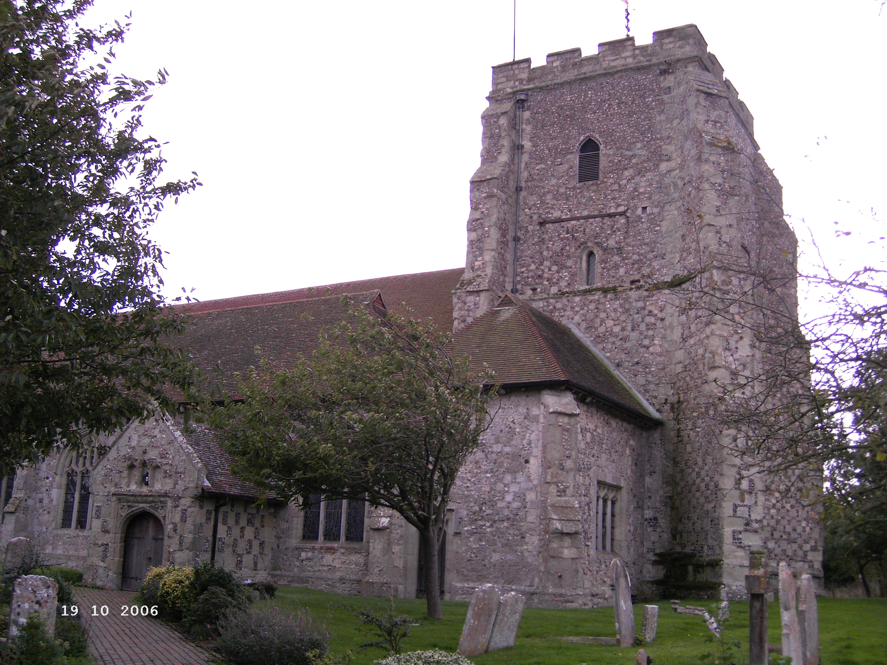 St Mary's Church, Westham, Westham